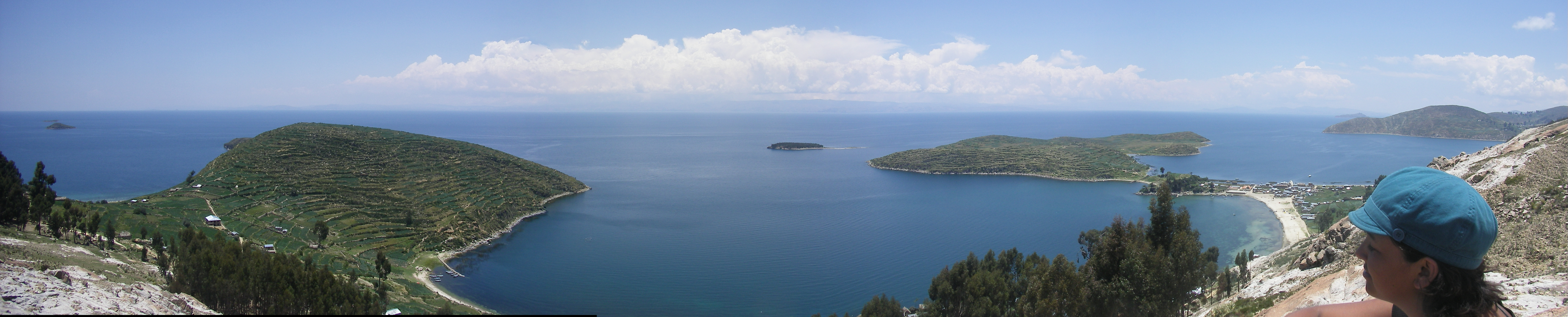 Panorama de la Isla del Sol y el lago Titicaca (Bolivia) NOTE: This image is a panorama consisting of multiple frames that were merged in software. As a result, this image necessarily underwent some form of digital manipulation. These manipulations may include blending, blurring, cloning, and color and perspective adjustments. As a result of these adjustments, the image content may be slightly different than reality at the points where multiple images were combined. This manipulation is often required due to lens, perspective, and parallax distortions.